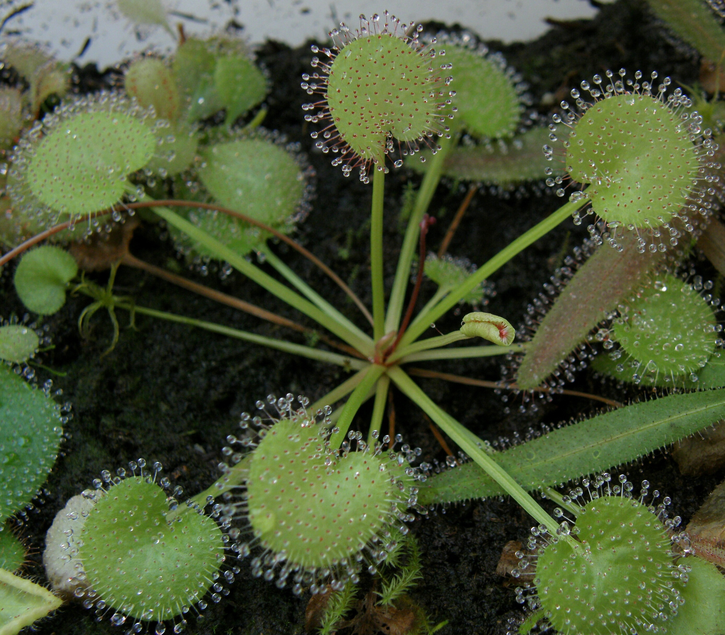 tentacles of Drosera prolifera